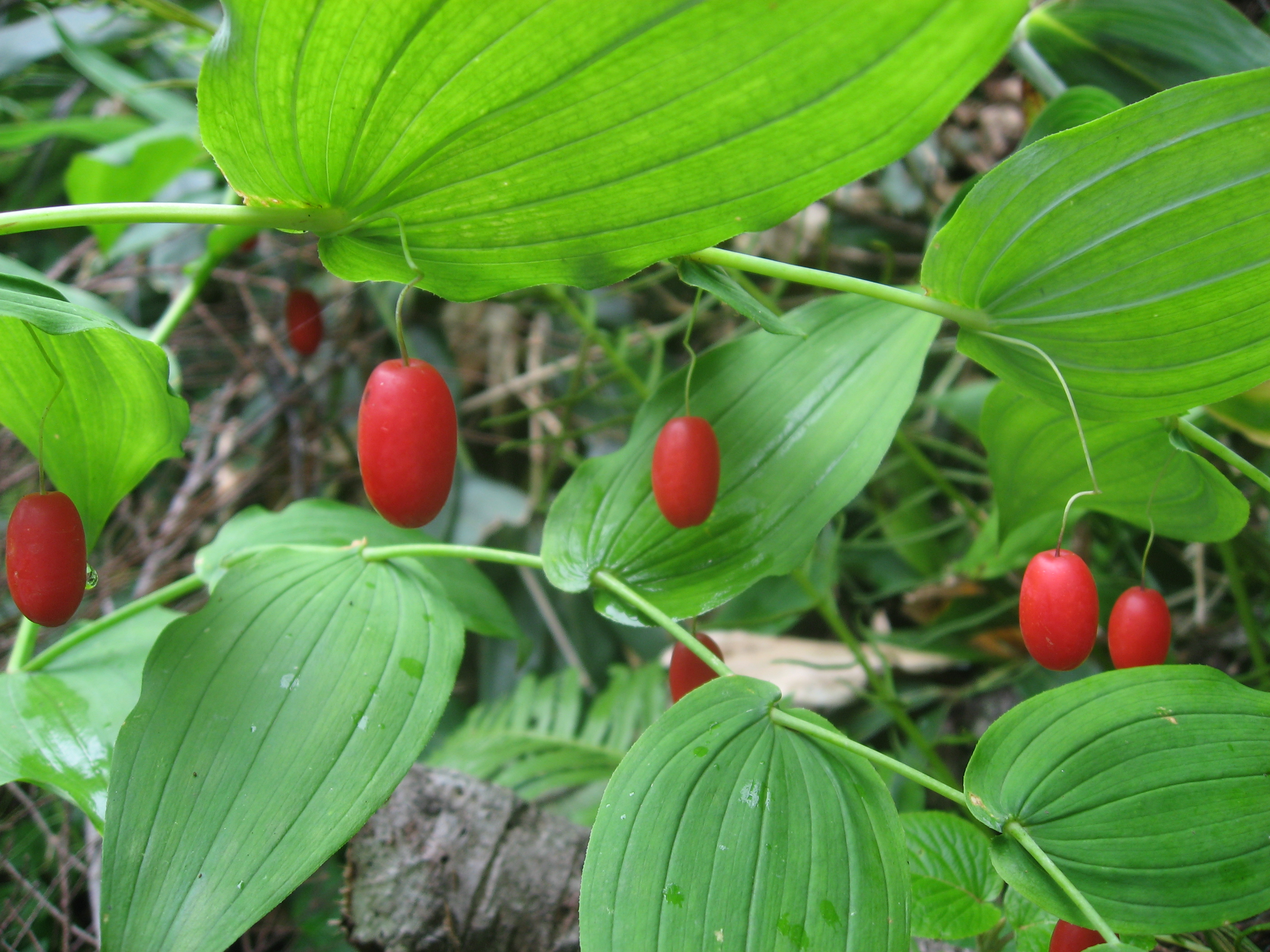 Streptopus amplexifolius, Mount Hiuchigatake, Fukushima pref., Japan